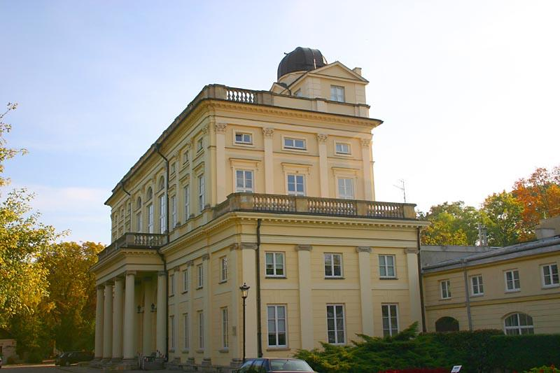 Warsaw University Astronomical Observatory. Lazienki Park in Warsaw